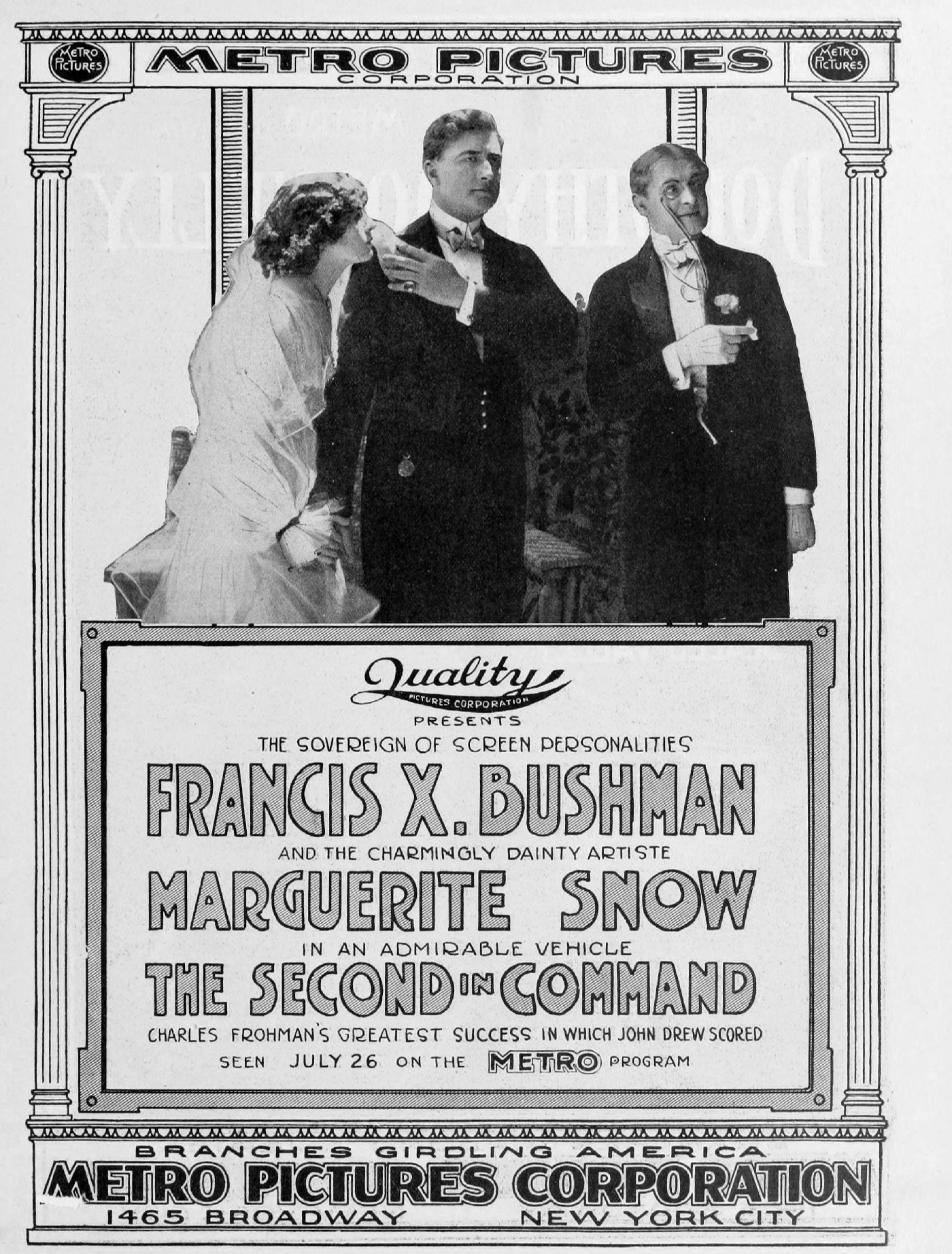 Advertisement for the American drama film The Second in Command (1915) in Motion Picture World.